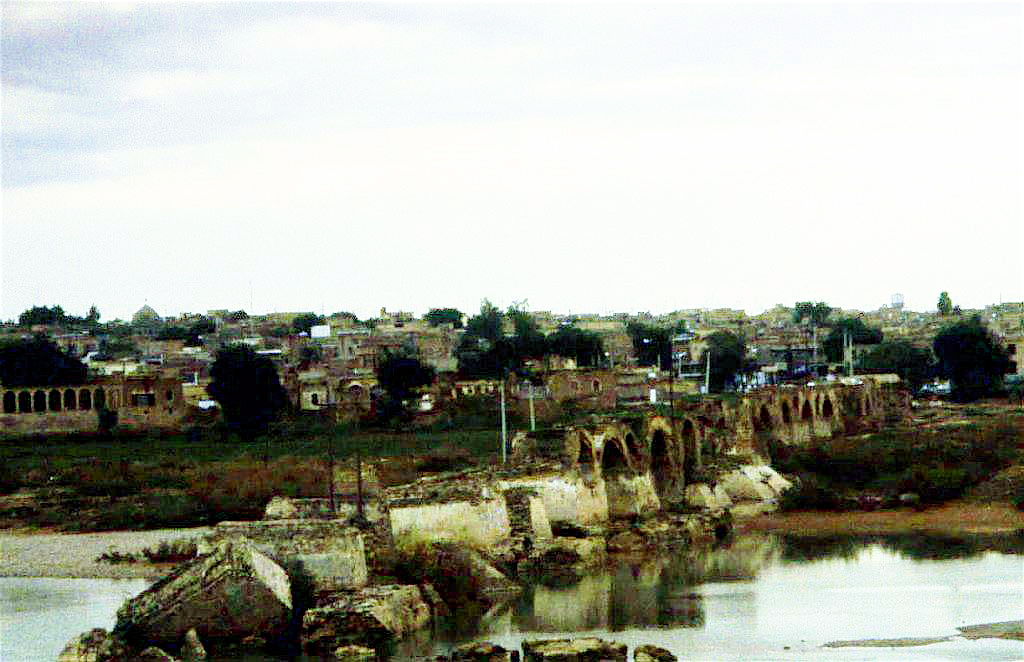 Roman-built Band-e Kaisar ("Caesar's dam") in Shushtar, Iran, said to have been built by Roman prisoners during the reign of Shapur I (ca. 260−270 AD). The dam bridge, the most eastern Roman engineering structure, was the first of its kind in Iran.